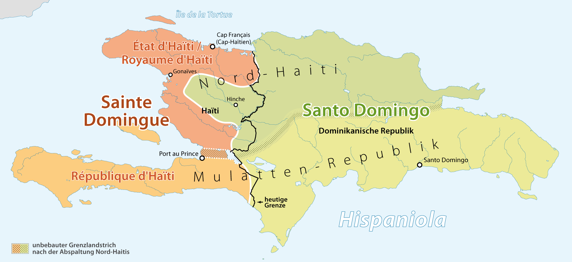 History of the territorial changes of Haiti